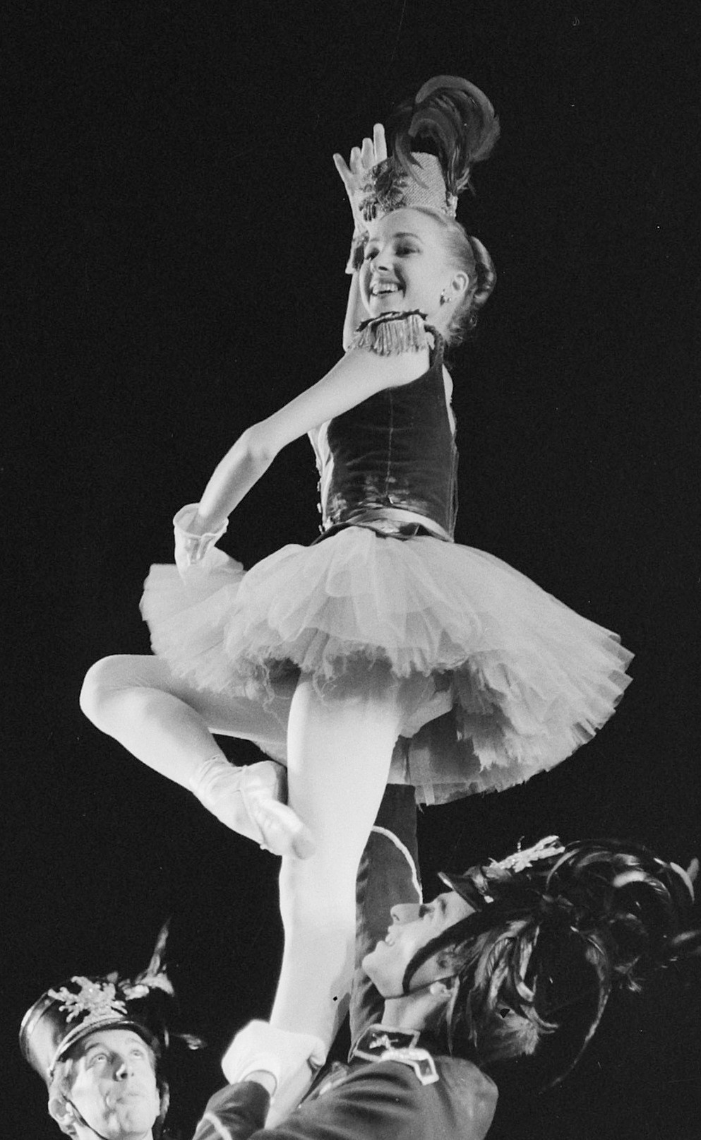 New York City Ballet in Amsterdam, Suki Schorer in Stars and Stripes